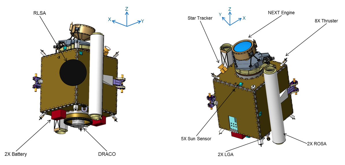 Two different views of the DART spacecraft bus. The DRACO (a tortured acronym that is the Didymos Reconnaissance & Asteroid Camera for OpNav) is based on the LORRI high-resolution imaging instrument from New Horizons. The left view also shows the Radial Line Slots Array (RLSA) antenna with (solar arrays rolled up). The isometric view on the right shows a clearer view of the NEXT-C ion engine.